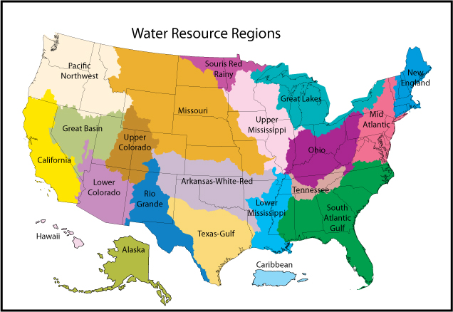 Map of the 21 water resource regions, with unique 2-digits hydrologic unit codes (HUCs), of the United States of America, per the USGS hydrologic unit classifications of region as the first level of classification.